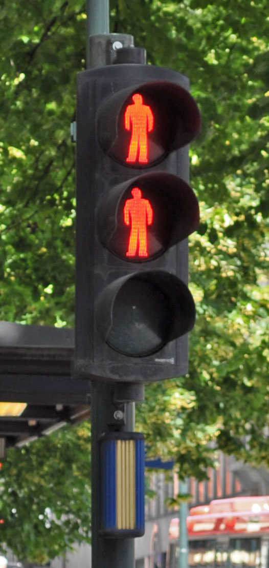 Norwegian pedestrian traffic lights